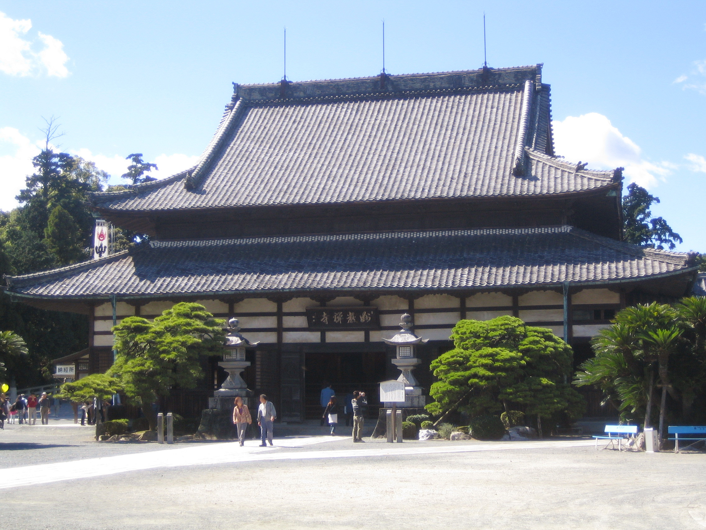 Myōgonji (妙厳寺), in Toyokawa, Aichi, Japan